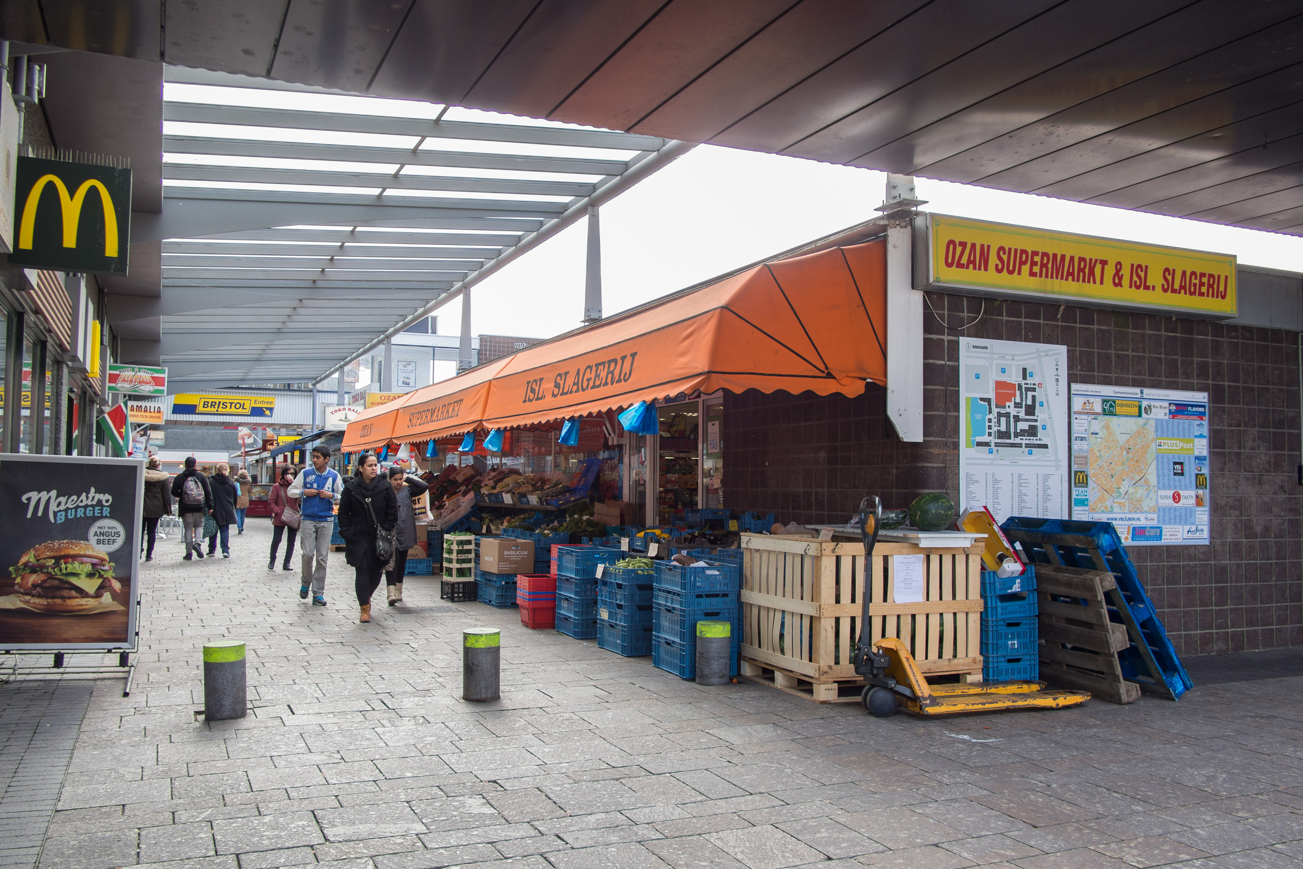 Leidsenhage shopping mall